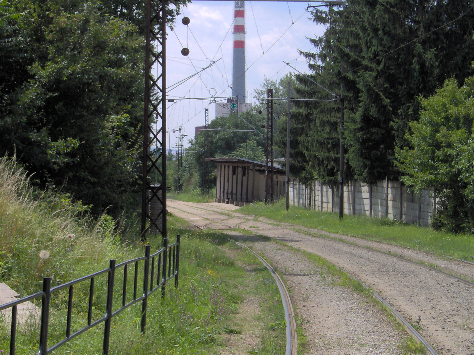 Tram track Černovice - Líšeň in Brno, tram stop Stránská skála